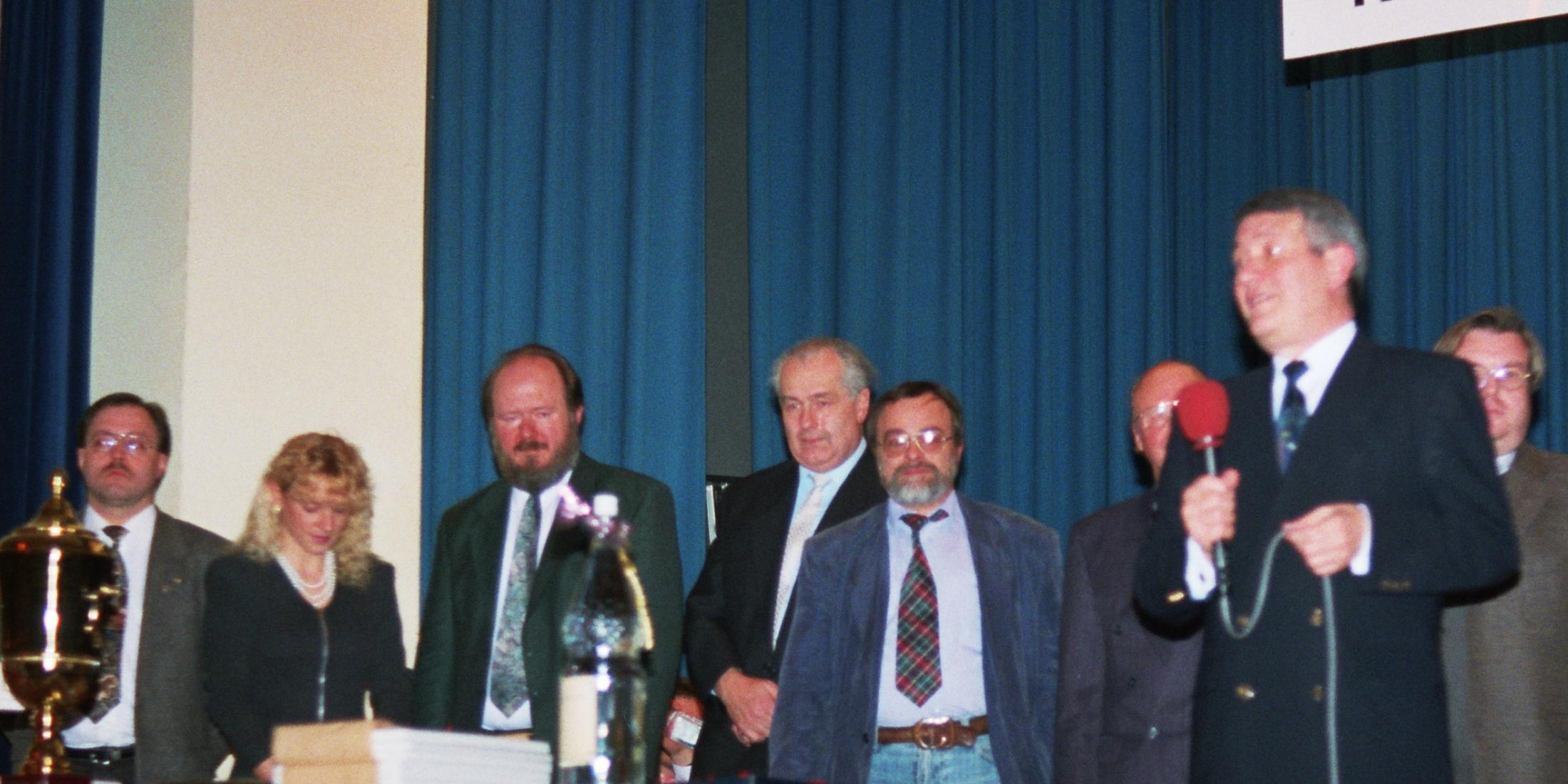 Greetings, Senior Chess World Championship 1995 at Bad Liebenzell, Photographer Gerhard Hund.